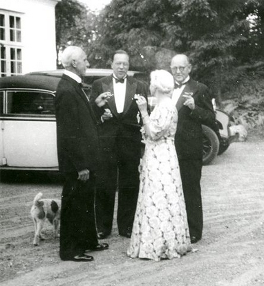 The yard in front of Grieboeshvile in Lyngby, Denmark. Its owner, Georg Bruhn, is seen to the left. West Germany's ambassador, G. F. Duckwitz , is seen in the middle.